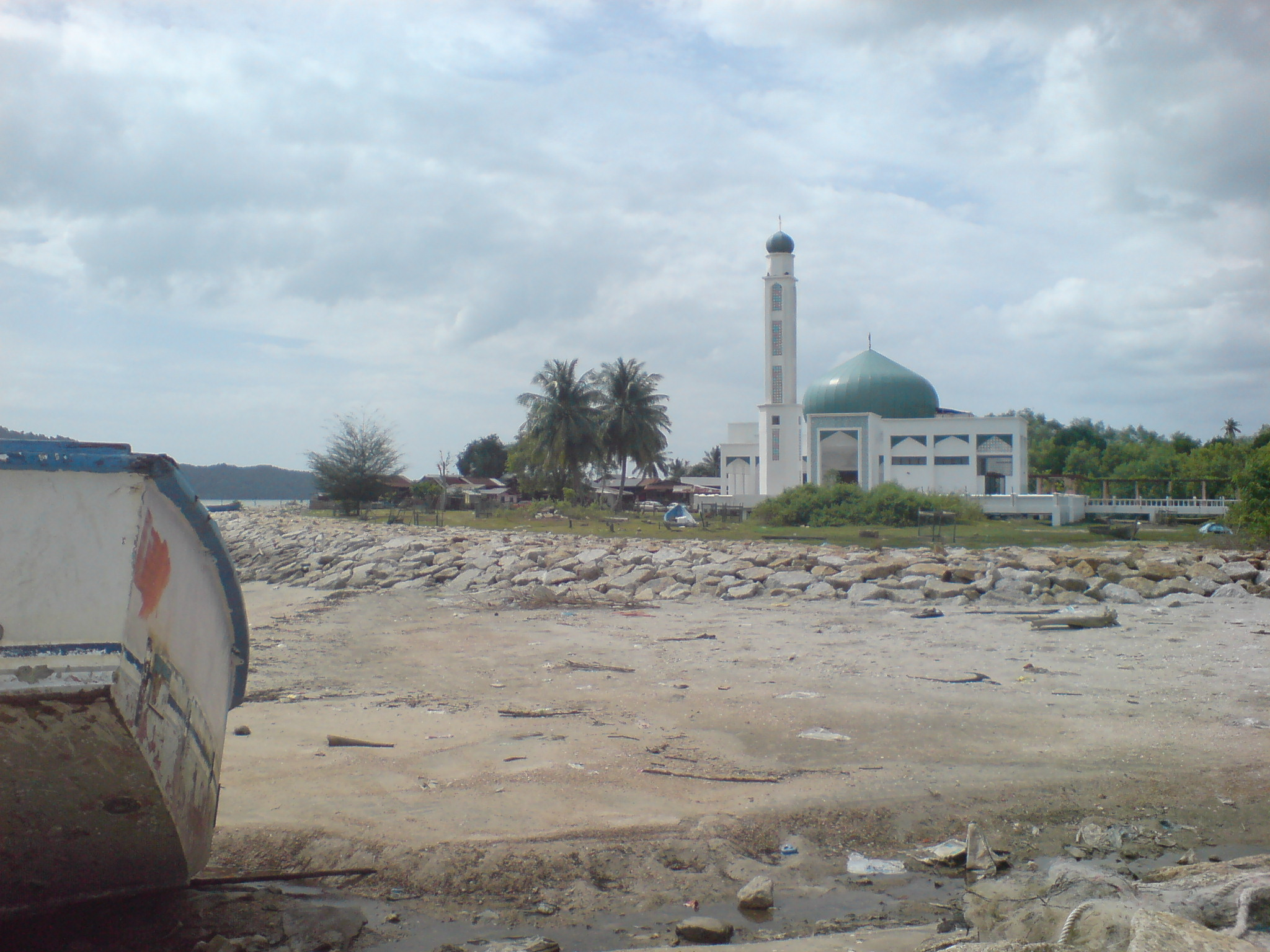 masjid Tanjung Dawai